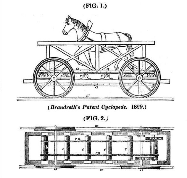 Picture of Cycloped.